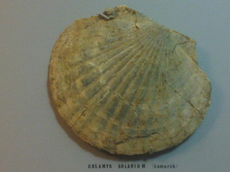 Annachlamys striatula - syn: Chlamys solarium at the National Museum of Natural History, Vilhena Palace, Republic of Malta.